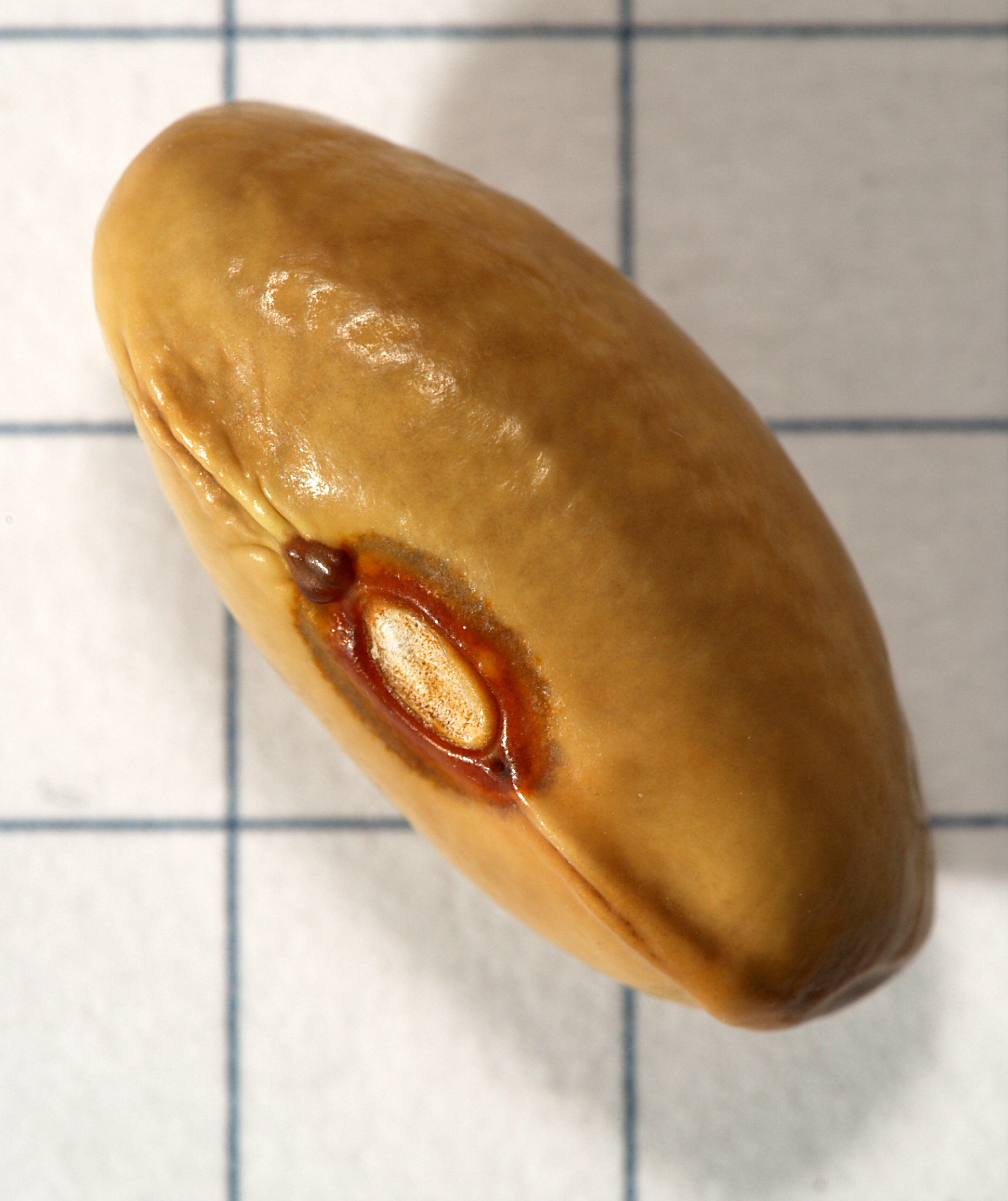 seeds of Phaseolus vulgaris, package says "Buschbohne". Squares have a length of 5 mm.